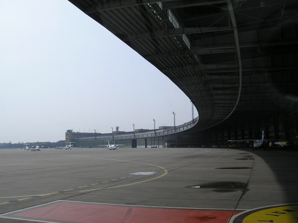 Image of Tempelhof Airport